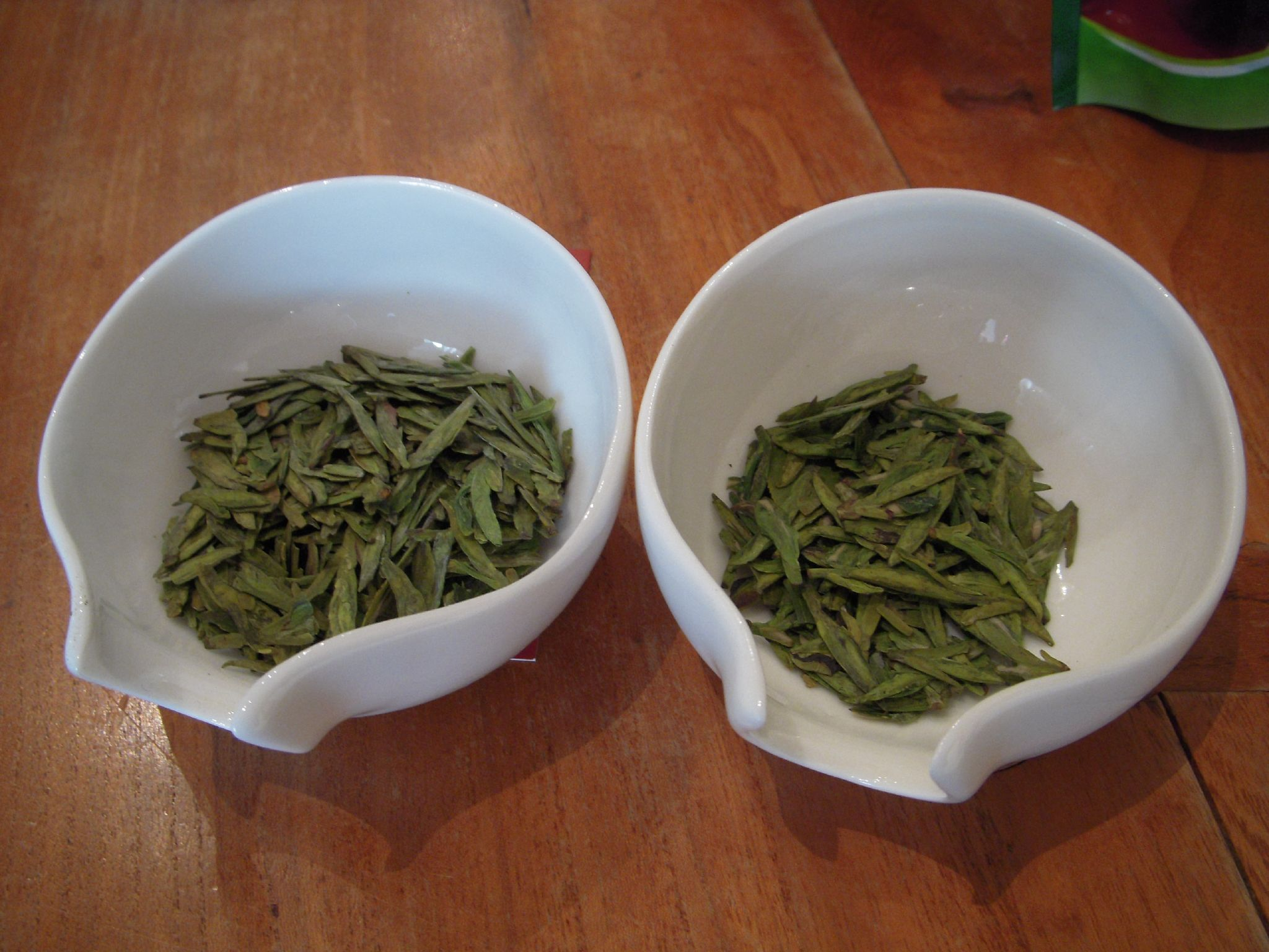 Ming Qian Longjing tea leaves.